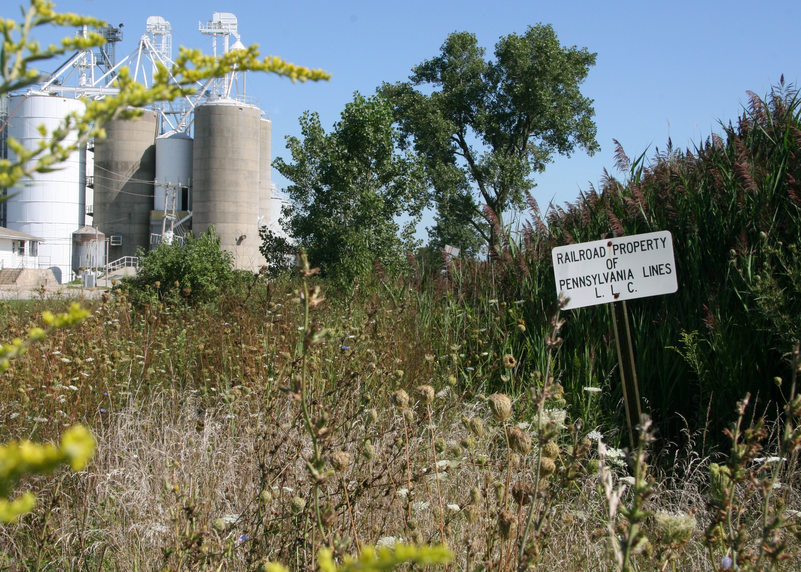 The railroad in Dunn, Indiana, now abandoned and overgrown. Photo looks north from Benton County Road 300 South.